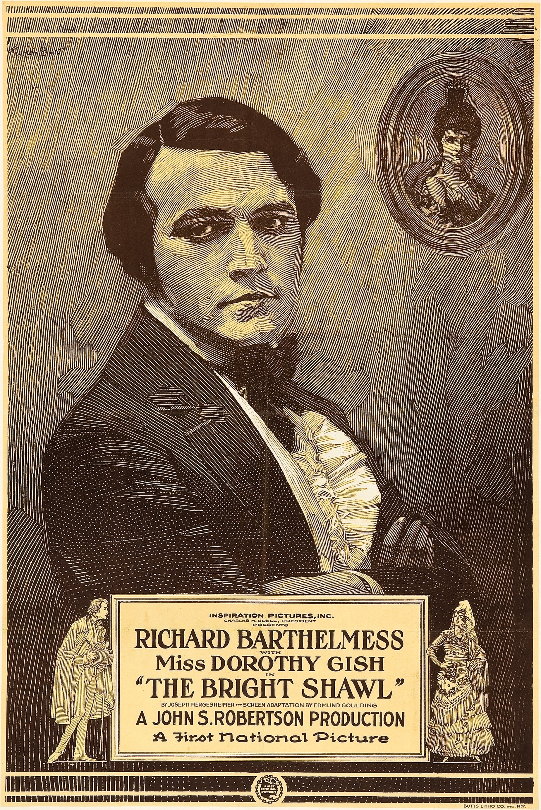 Poster for the American historical drama film The Bright Shawl (1923), with no copyright notices.